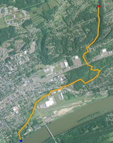 Satellite map of Kinney Run. The red dot is the stream's source and blue dot is its mouth. Data available from U.S. Geological Survey, National Geospatial Program.